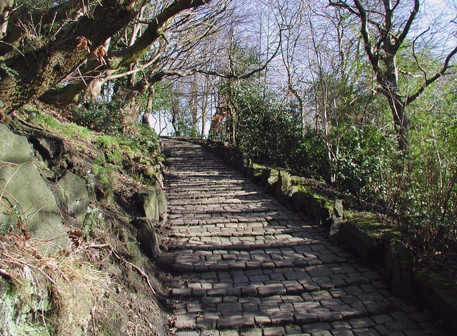 Shroggs Park, Halifax Near the top of the steep, cobbled footpath winding up the hill from Shroggs Road to the park.